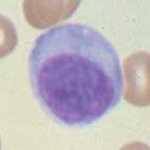 Plasma cell – own work by User:CS99